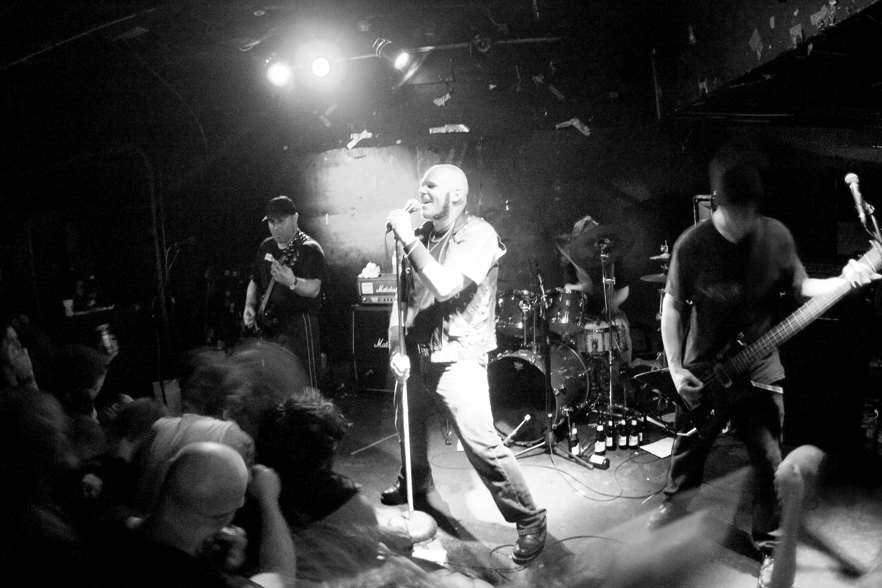 Razor live in Toronto, Canada, August 15 2009